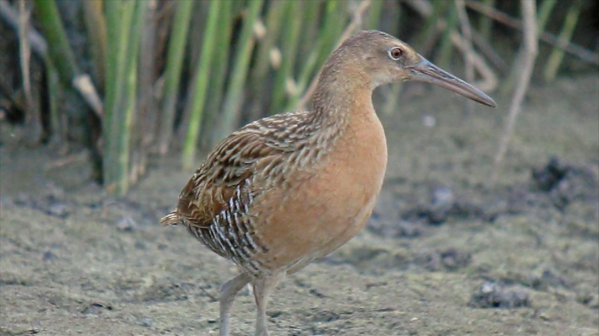 Digiscoped in Monroe County Illinois on 8/28/11 (There were eight young.) A youngster came out and then a parent and then more young and soon it seemed like mayhem until the parent seemed to get them all to follow her across the road.